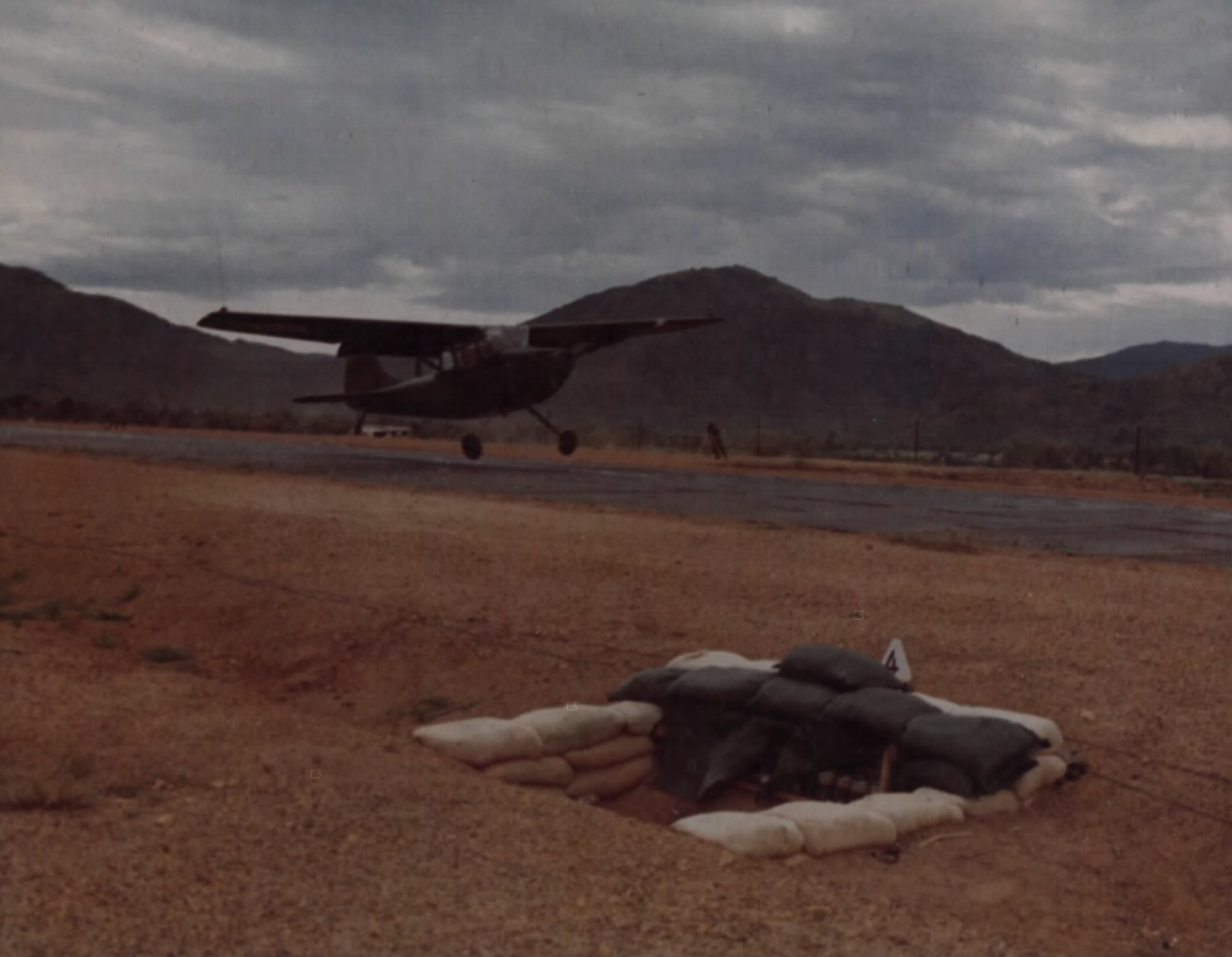 L-19 aircraft of the Tiger Infantry Division, takes off from the division airfield for a support mission